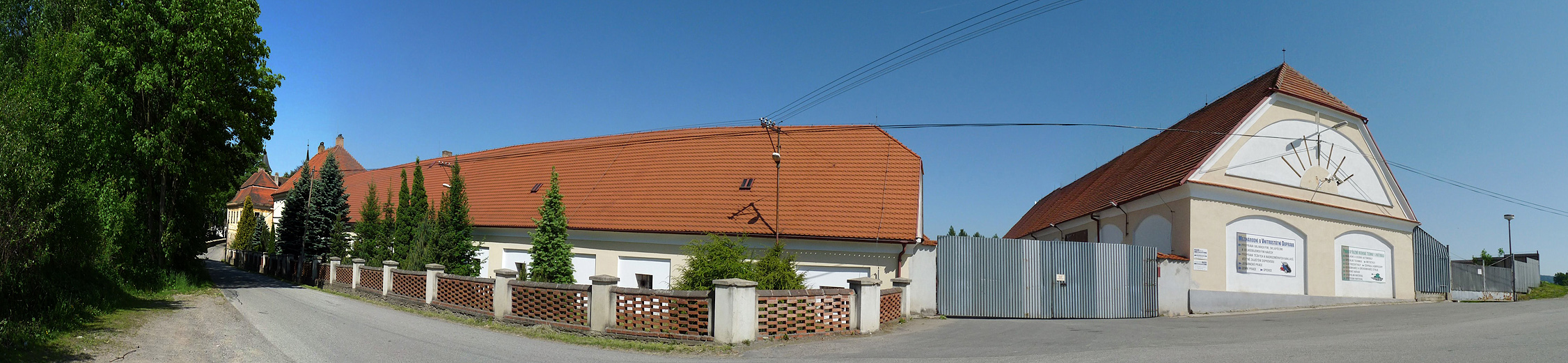 Chateau in the village of Hroby, Tábor District, South Bohemian Region, Czech Republic, part of the municipality of Radenín.